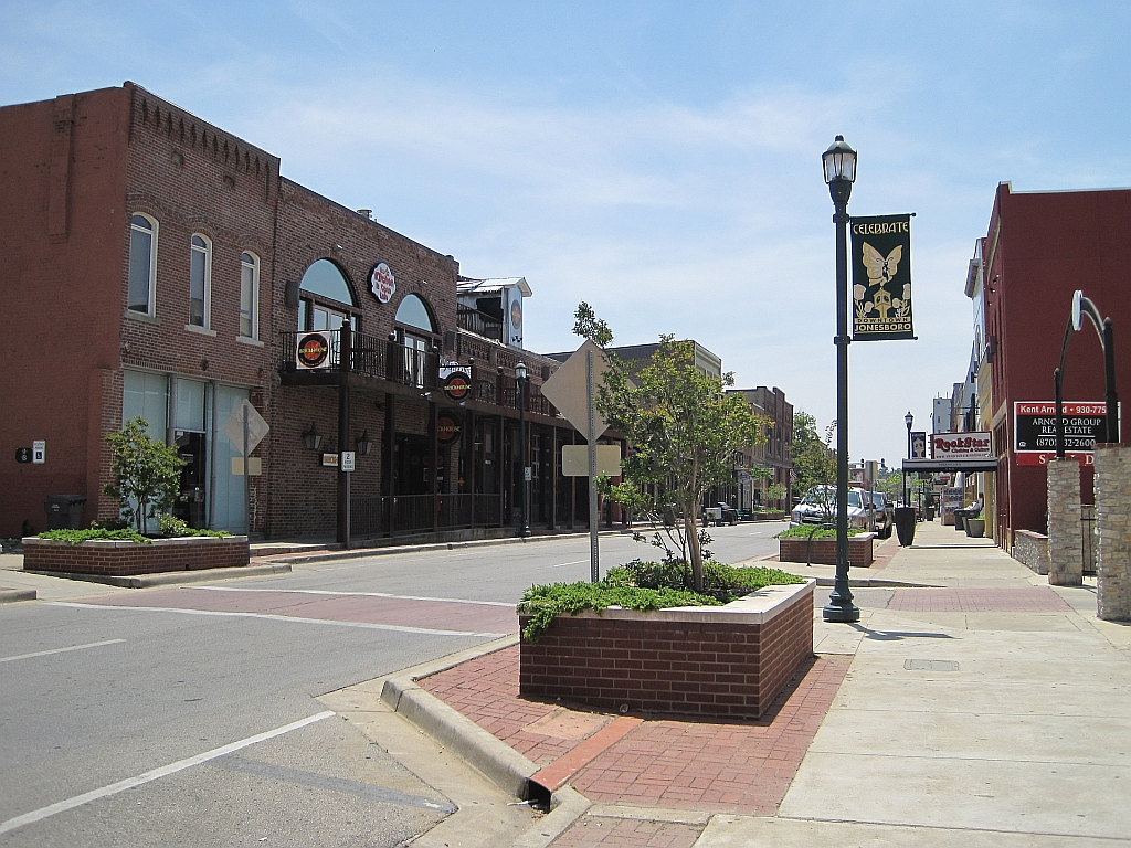 Downtown Jonesboro, Arkansas